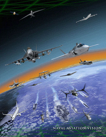 US Naval Vision 2020